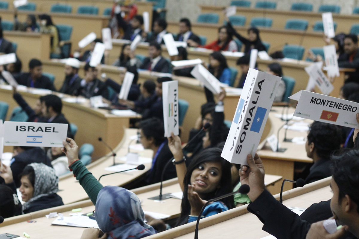 A funny moment of Bangladesh International Model United Nations (BIMUN)